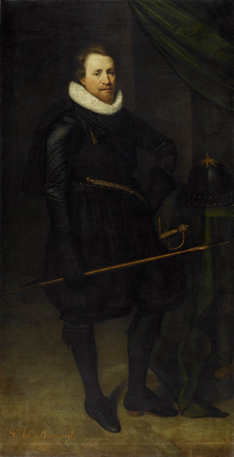 Sir John Burroughs was a 17th-century English soldier and military commander in the protestant army.